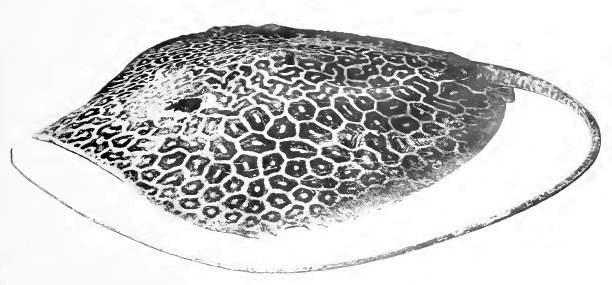 Type specimen of Trygon favus (=Himantura fava)